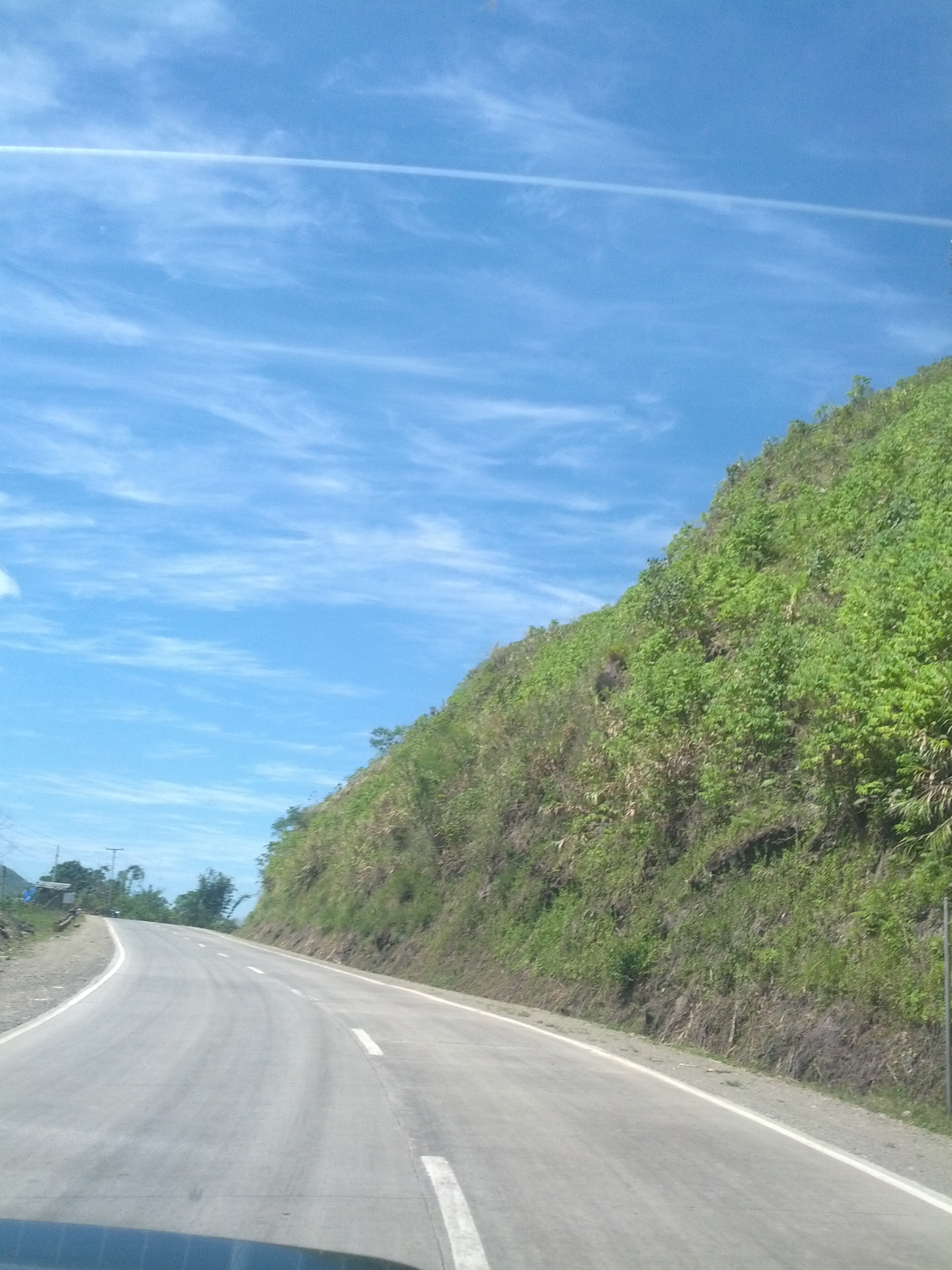 Bukidnon - Davao road. North nound section of the road.